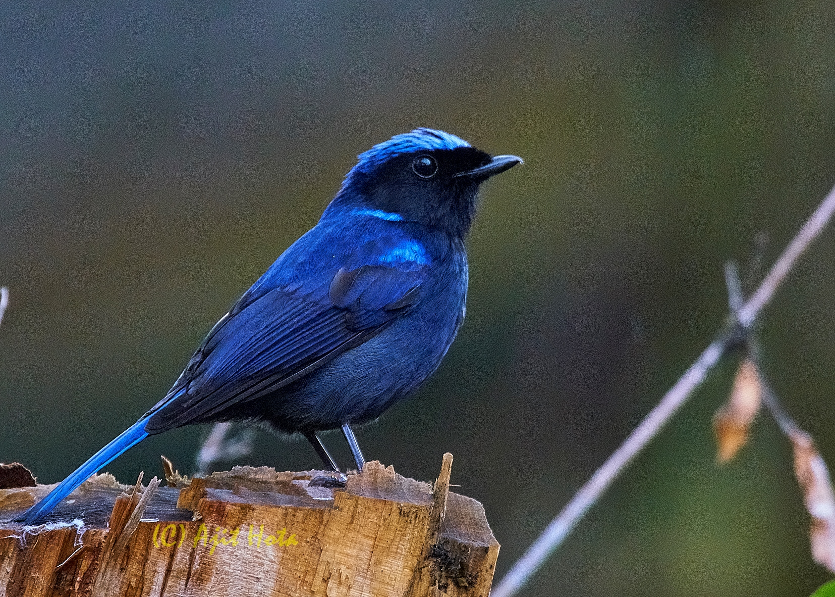 Large Niltava clicked in Goechala Trek, Sikkim